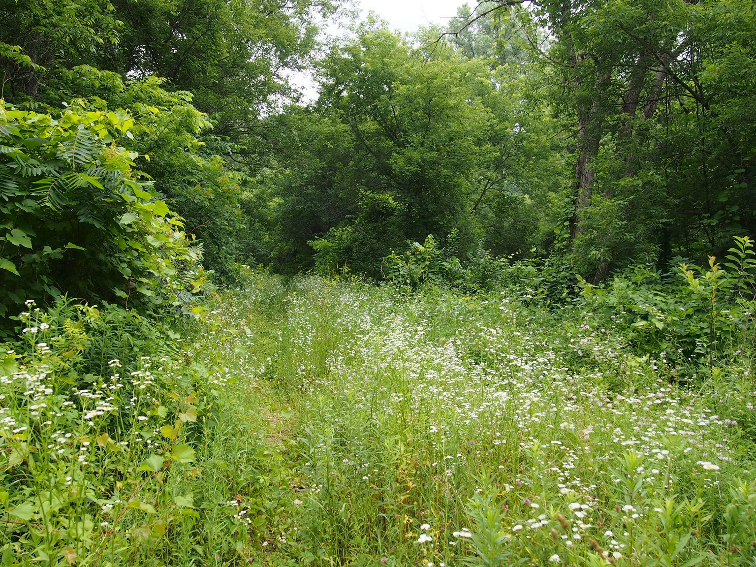 Mendota to Wabasha Military Road: Cannon River Section (disused Cannon Bottom Road), Red Wing, Minnesota, USA.